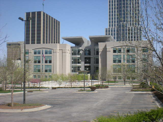 Roman L. Hruska Federal Courthouse